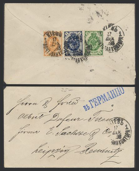 Cover of the Russian Emprire.